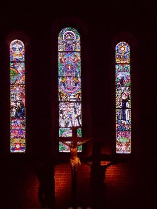 Dominican Church and Convent of St. James in Sandomierz